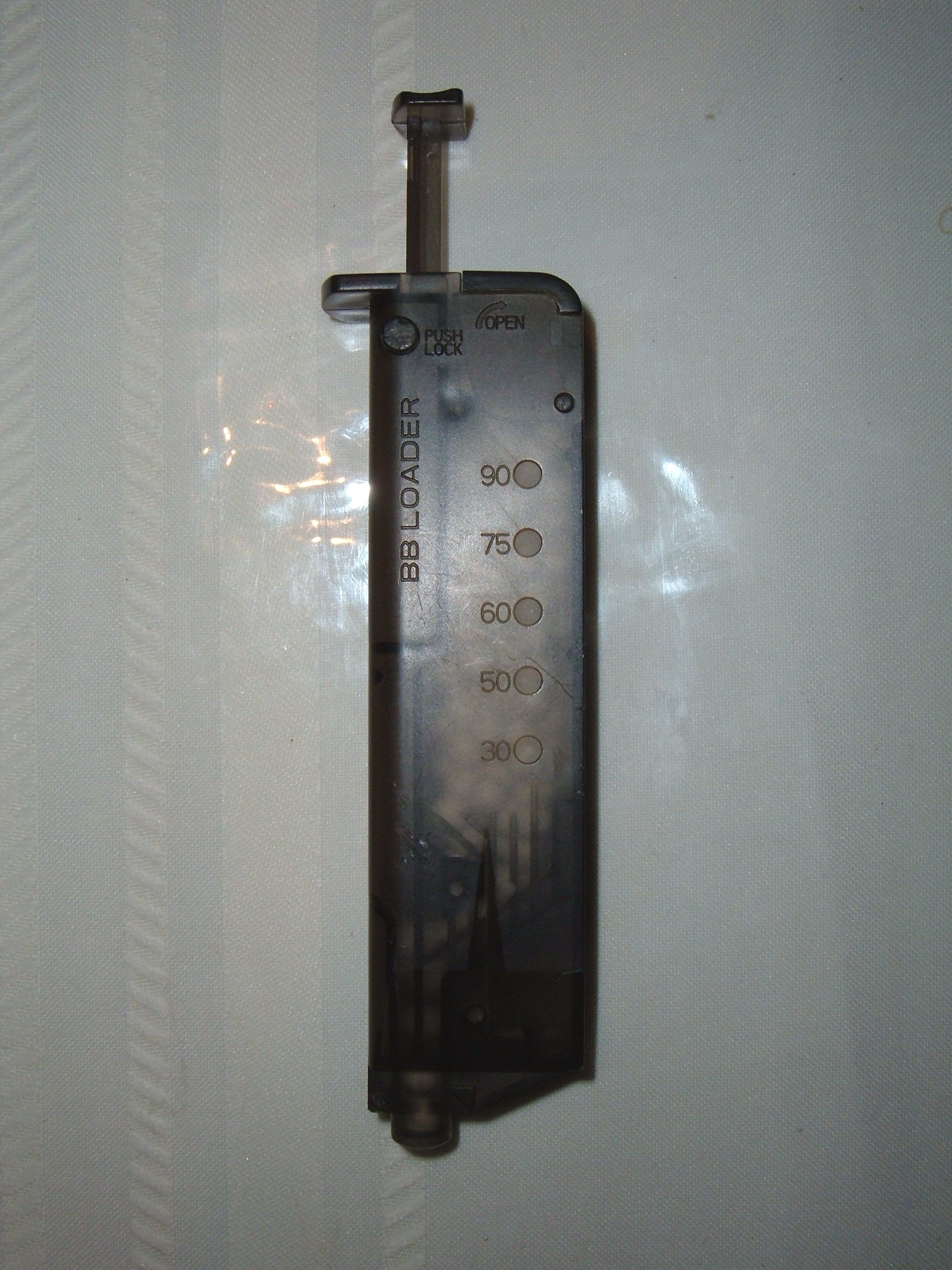 Airsoft BB loader, enabling the fast loading of BBs into a magazine.